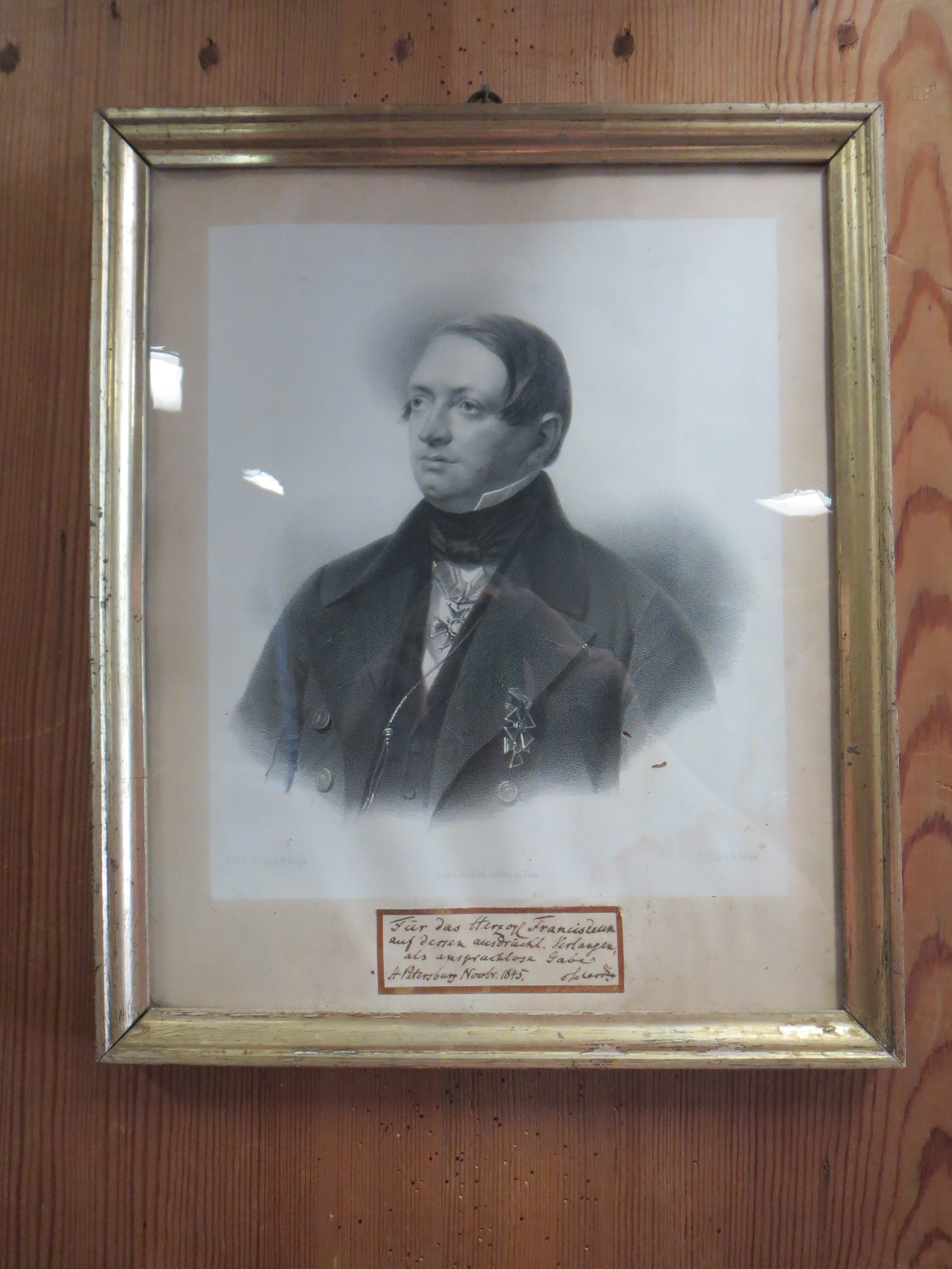 Francisceumsbibliothek Schardius